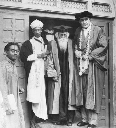 Rabindranath Tagore With Sir Maurice Gwyer and Dr. S. Radhakrishnan at Sinha Sadan after the Oxford University Convocation on 7 August 1940. Sir Maurice Gwyer, Founder of Miranda House, University of Delhi.